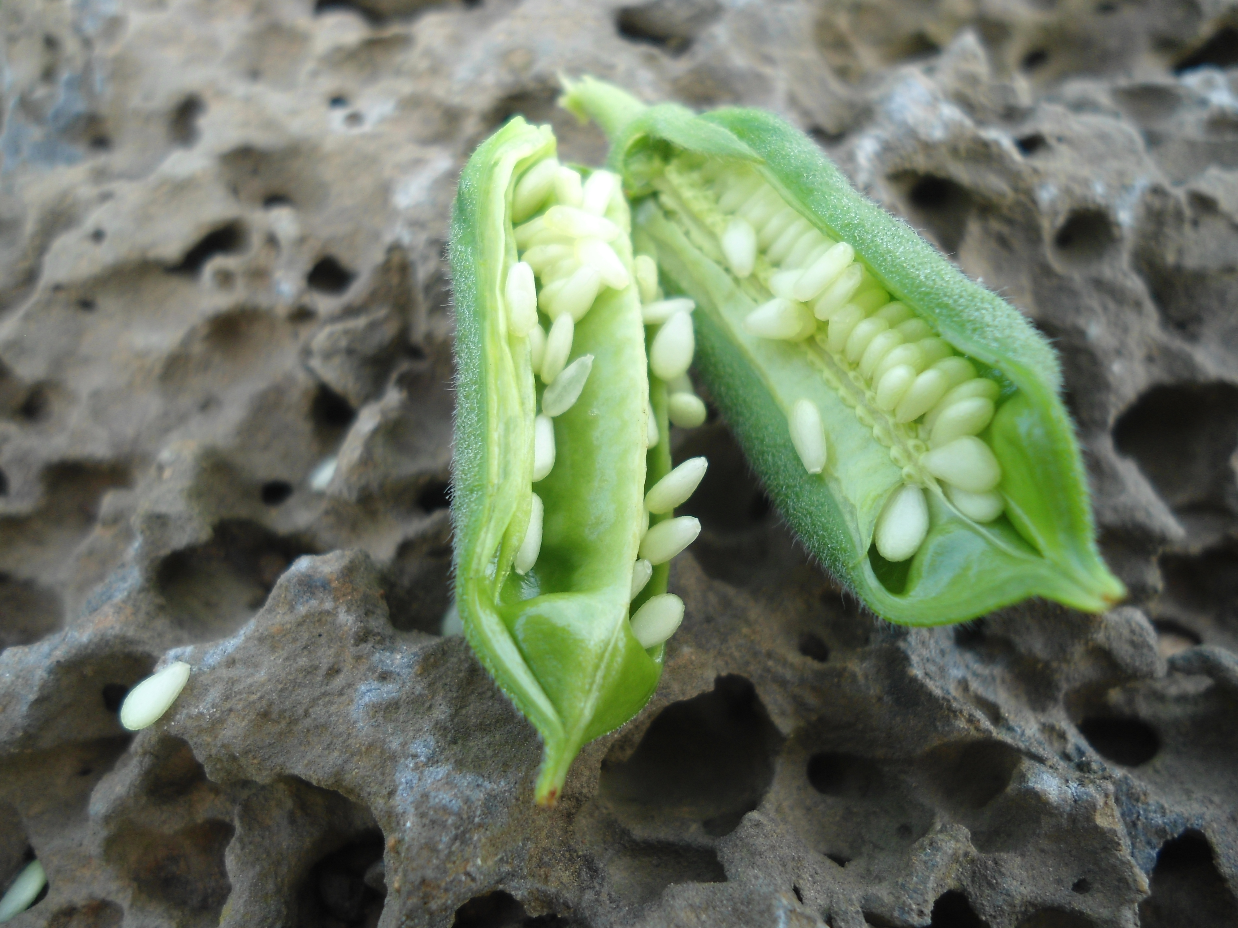 Sesame pod in Hainan, China